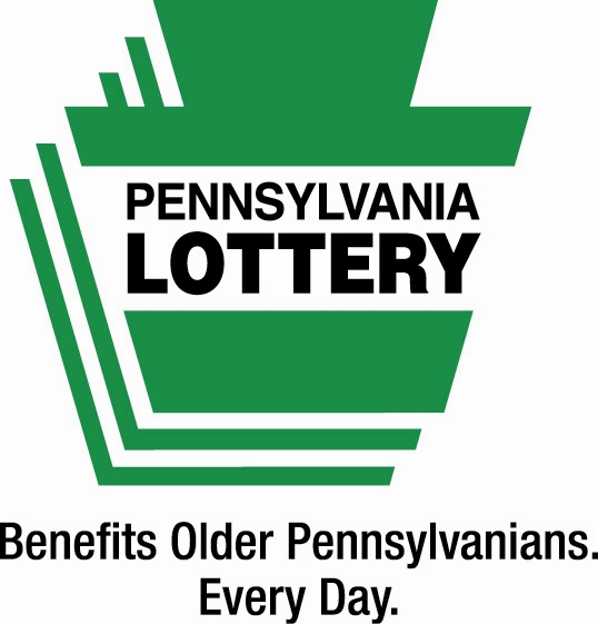 Pennsylvania Lottery official logo, which includes tagline, "Benefits Older Pennsylvanians. Every Day."